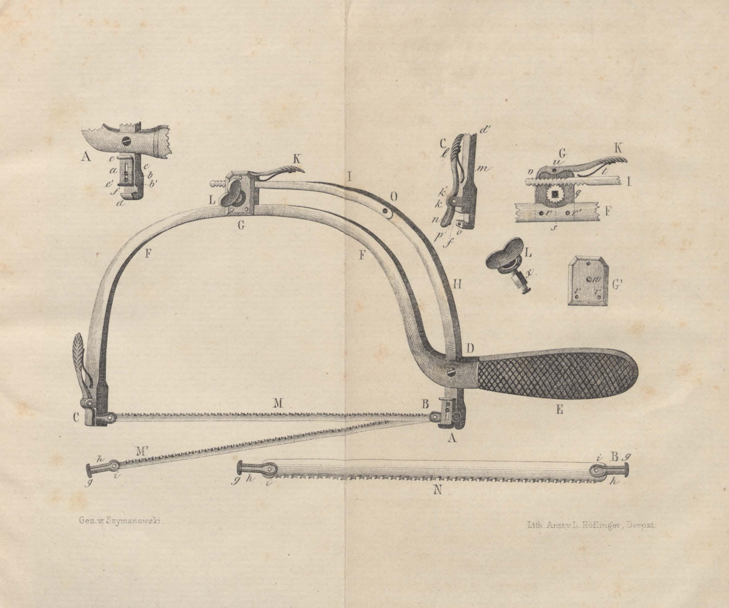 Resection saw invented by Julius von Szymanowski